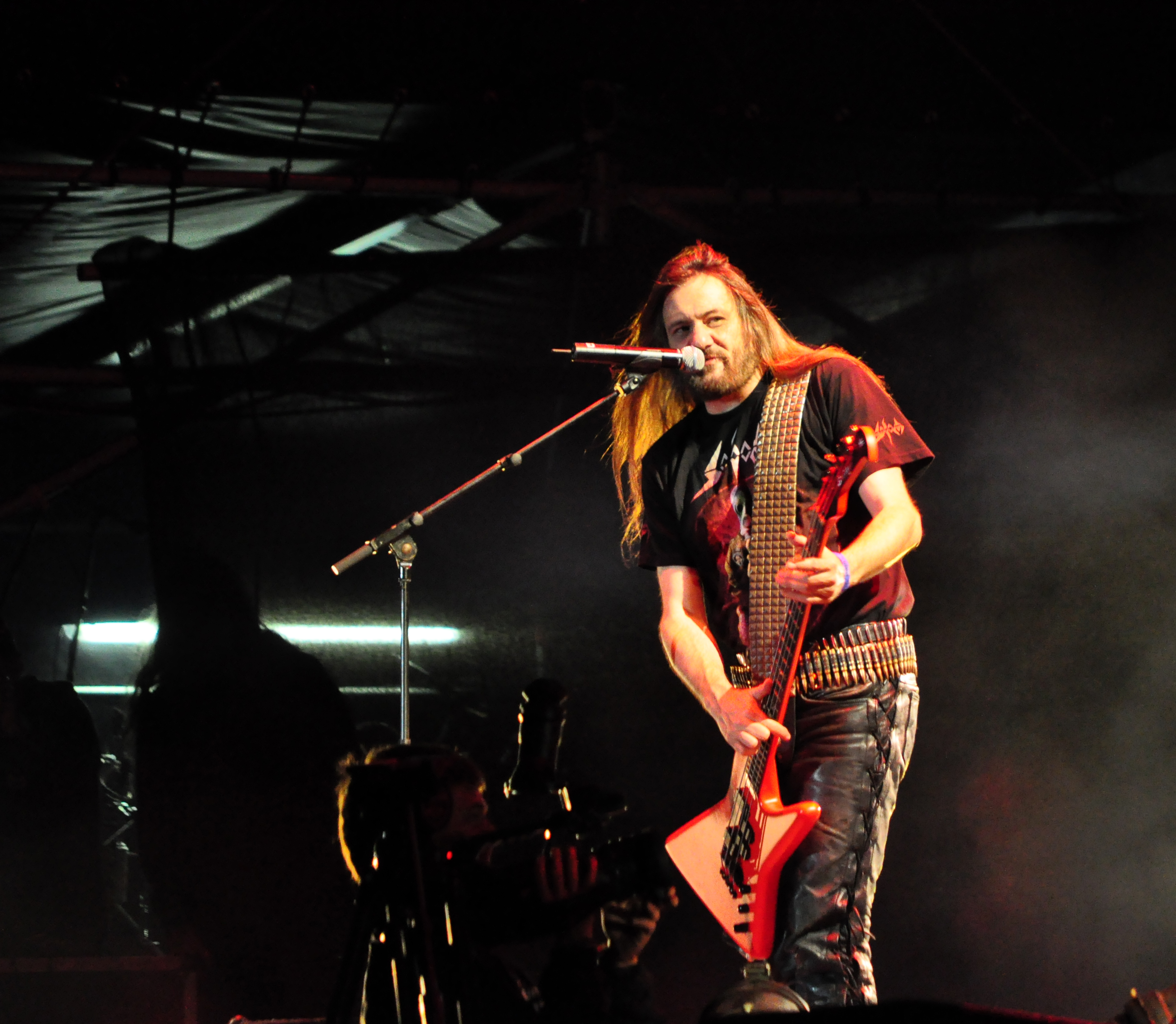 Sodom at Party.San Open Air 2012